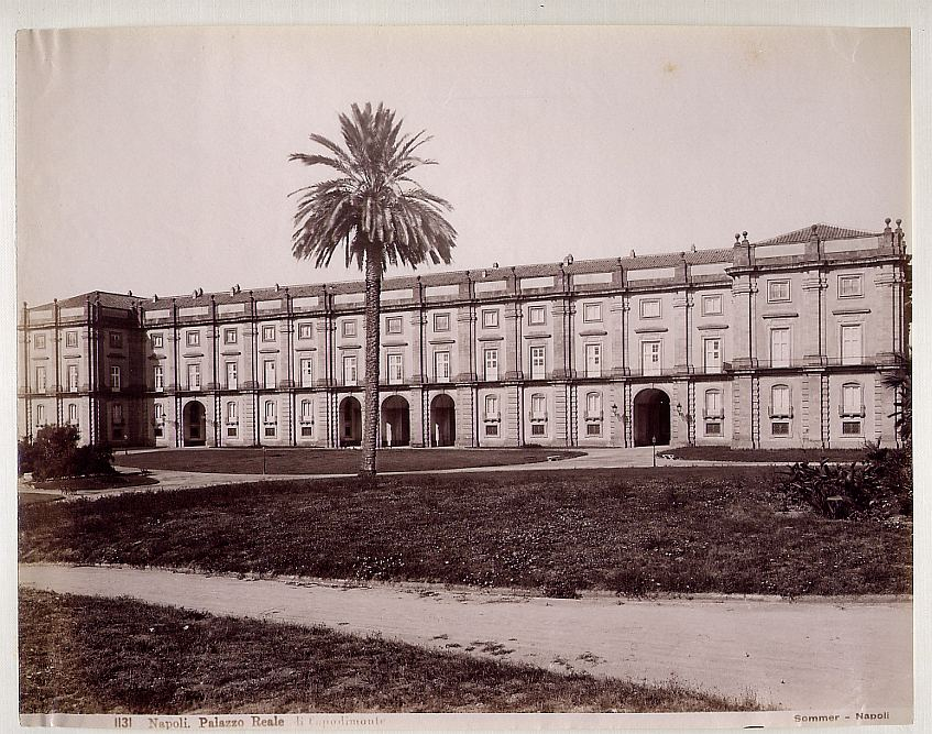 Giorgio Sommer (1834-1914), Naples. The Royal palace at Capodimonte (nowadays a museum). Ca. 1880. Catalogue number: 1131. Today.